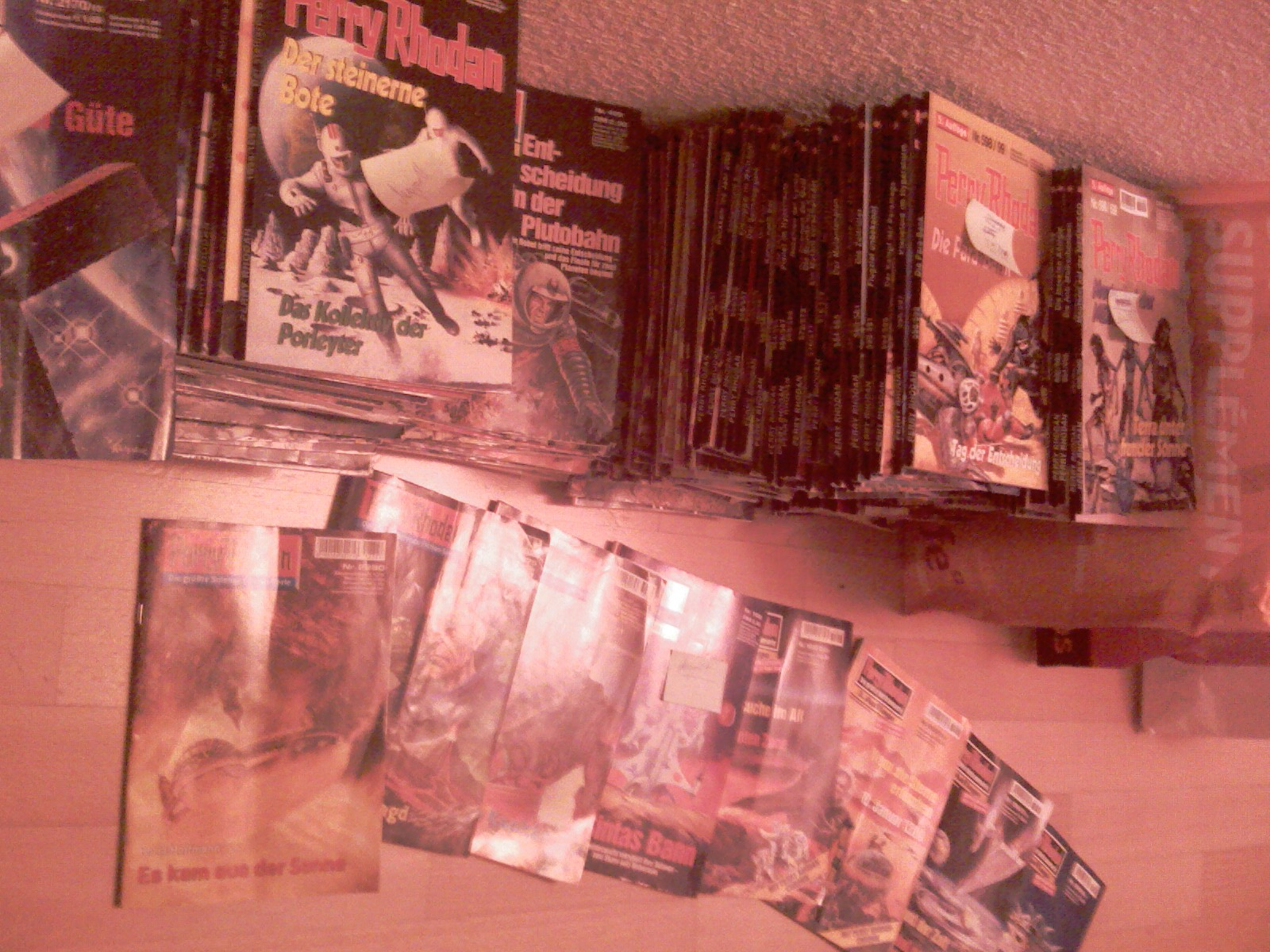 Collection of Perry Rhodan fascicle - Kolekto de Perry-Rhodan-serikajeroj